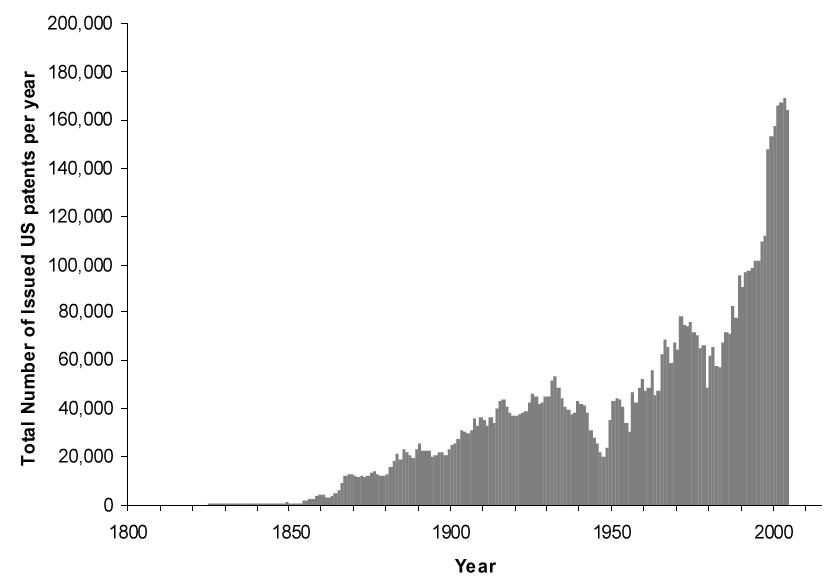 U.S. Patents granted, 1800–2004.